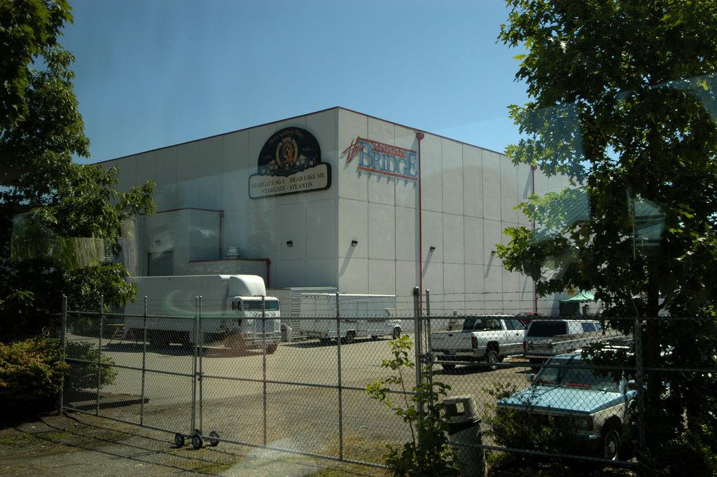 Bridge Studios, movie studios in Vancouver, BC, Canada